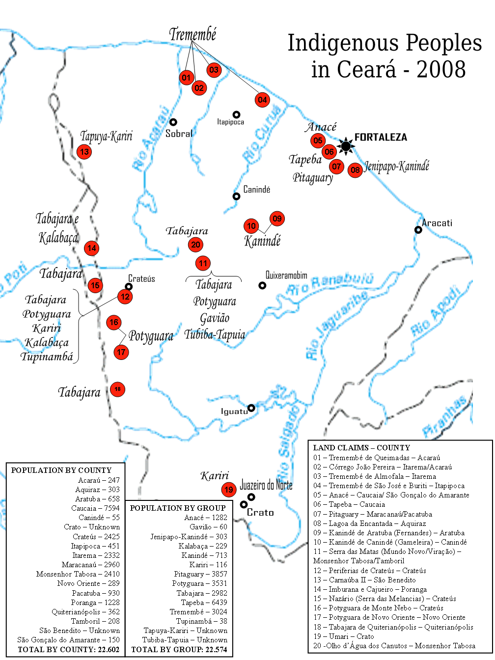 Indigenous Peoples in Ceará 2008